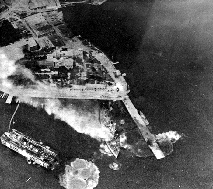 The Greek battleship Kilkis under attack by German Junkers Ju 87B Stuka dive bombers, at the Greek naval base at Salamis, 23 April 1941. In the lower left, in the floating dock, is the destroyer Vasilefs Georgios. Kilkis, the former USS Mississippi (BB-23), was sunk in this attack. The floating dock and destroyer were later scuttled, but Vasilefs Georgios was subsequently raised and placed in service by the German Navy as ZG 3 Hermes.